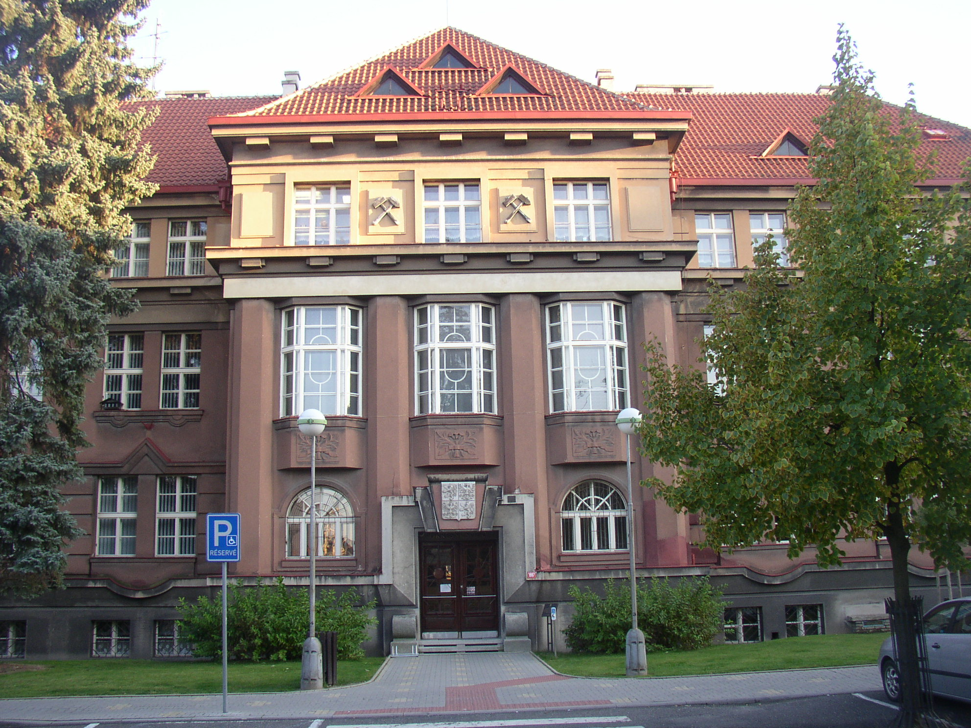 Seat of District Court in Kladno, Kladno District, Central Bohemian Region, Czech Republic. The 1924 building designed by Alois Dryák serves as courthouse since 1987.